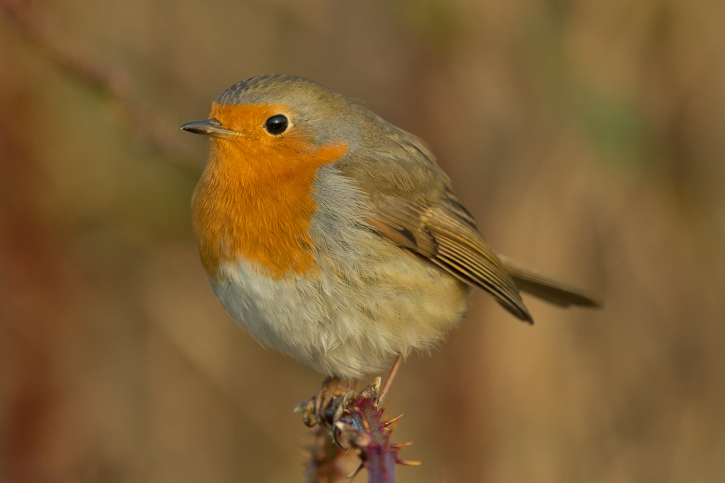 European Robin